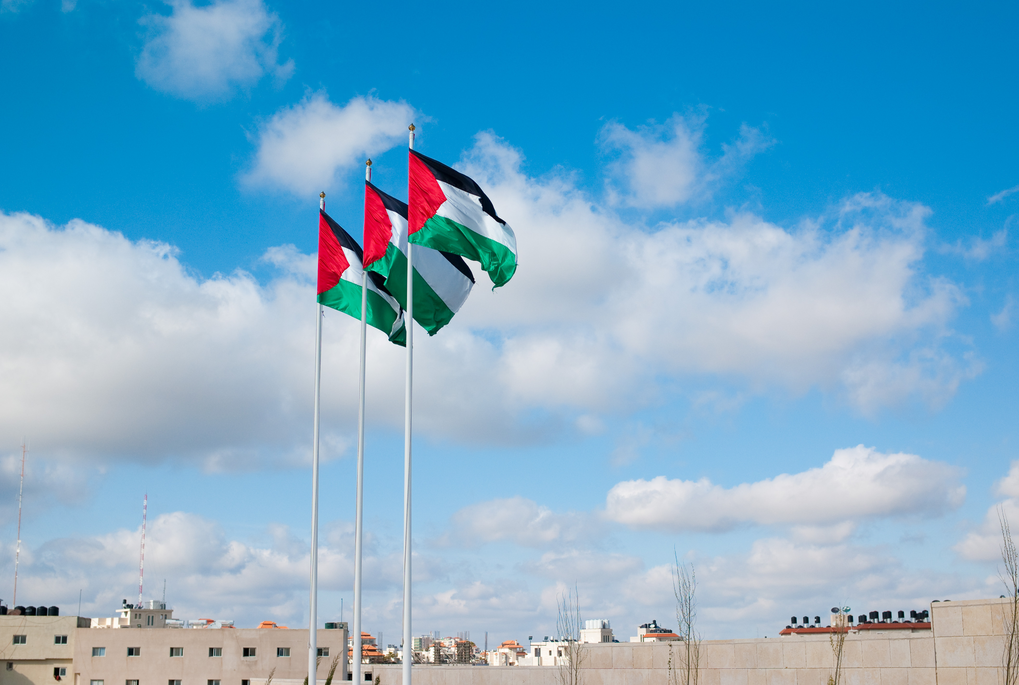 Palestinian flags at Yasser Arafat's tomb